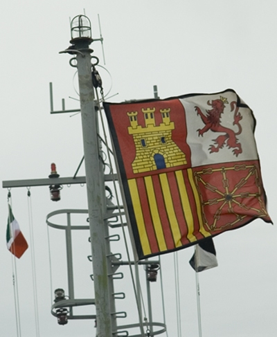 Spanish Navy Jack flying on a ship